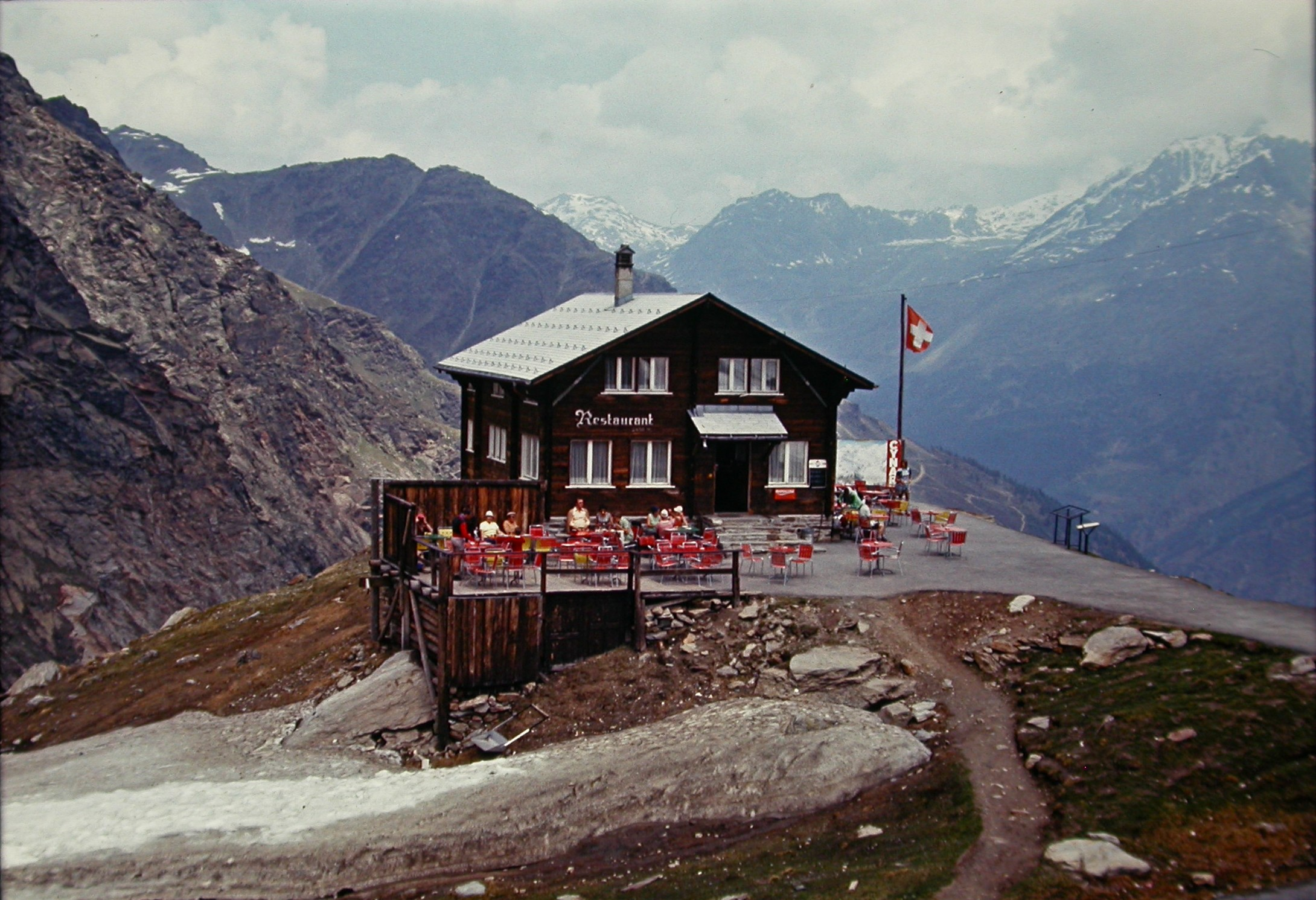 1974 Saas Fee Spielboden